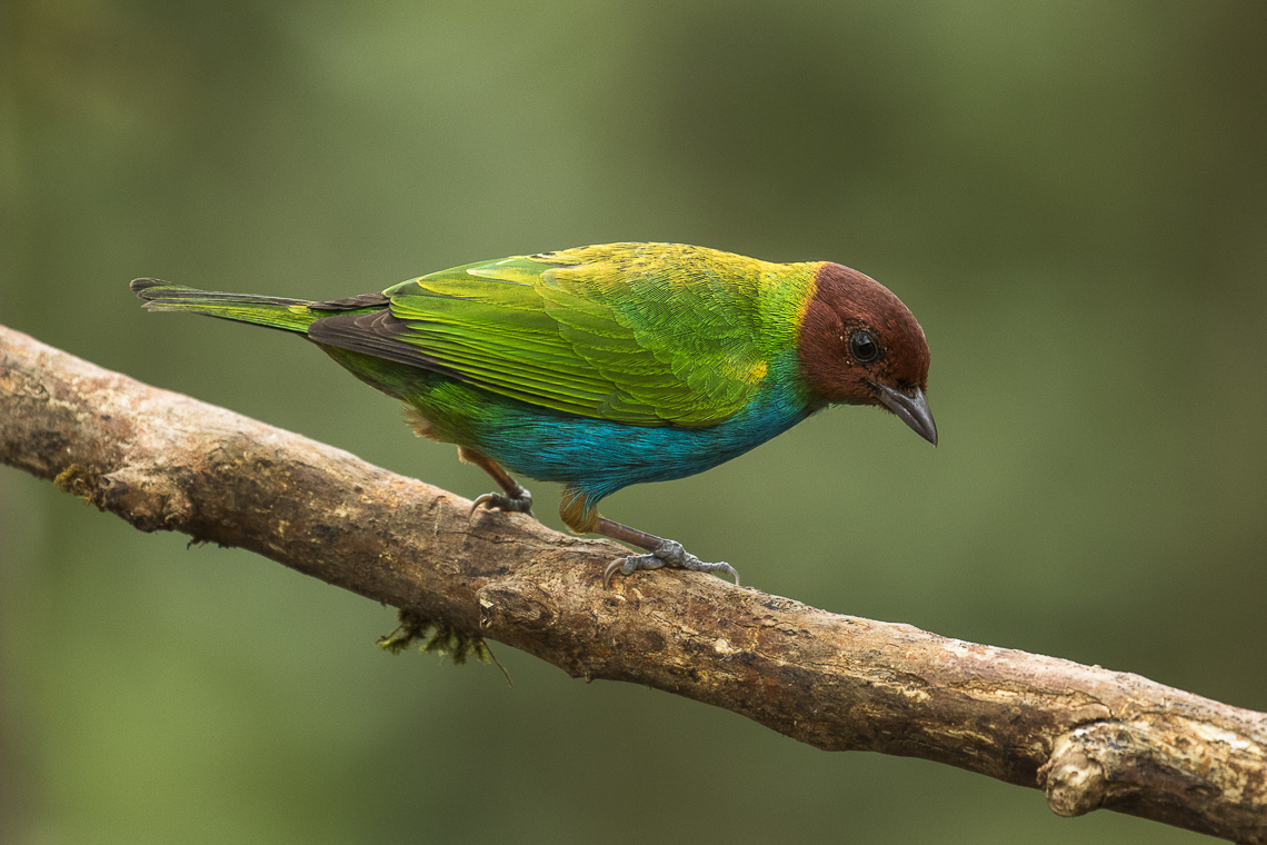 Bay-headed Tanager - San Luis - Costa Rica_MG_1171